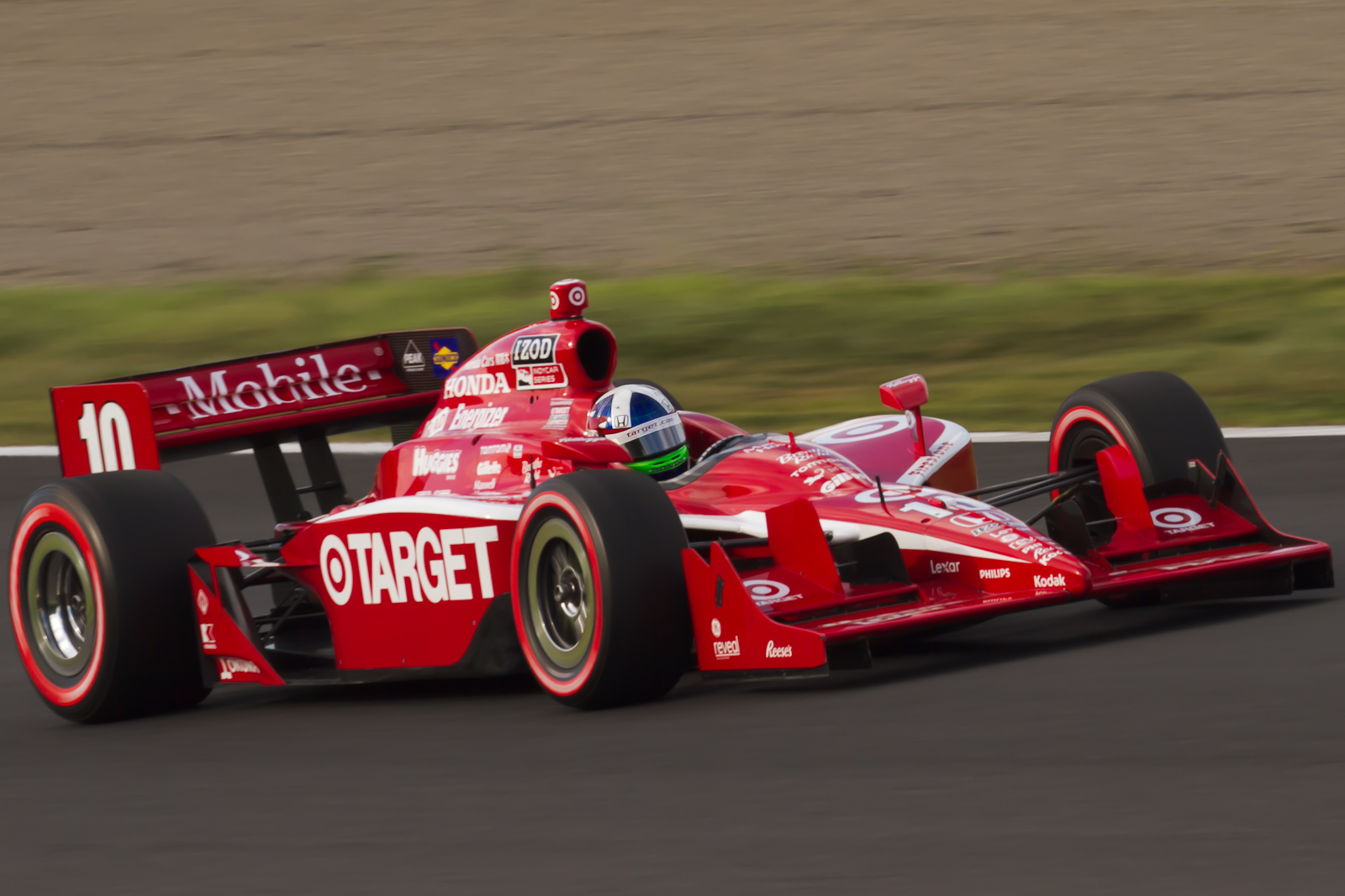 IndyCar Series 2011 Rd.15 Indy Japan 300: Dario Franchitti (Chip Ganassi)